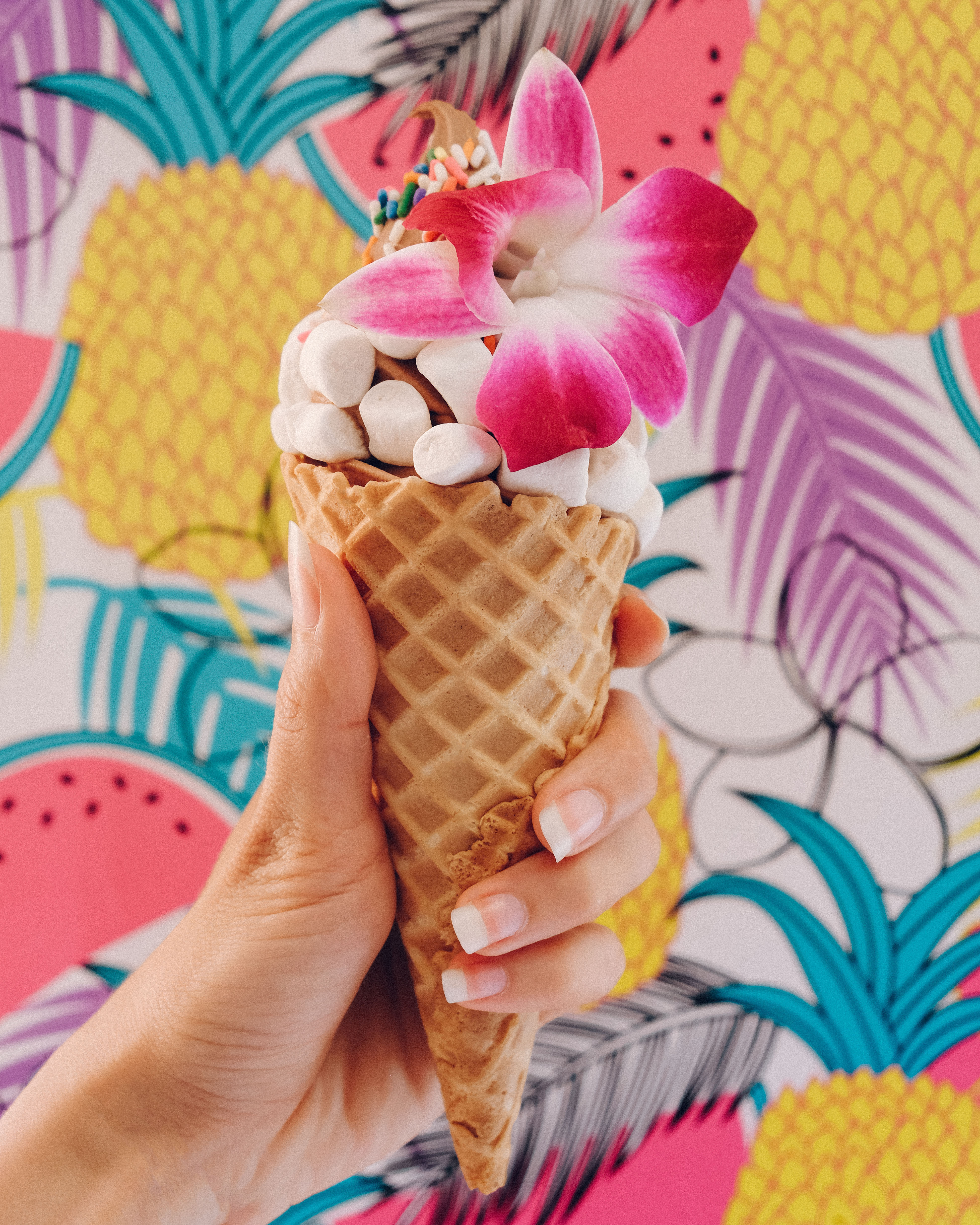 Ice cream made out of frozen fruit. Sweet local shop in Venice beach.